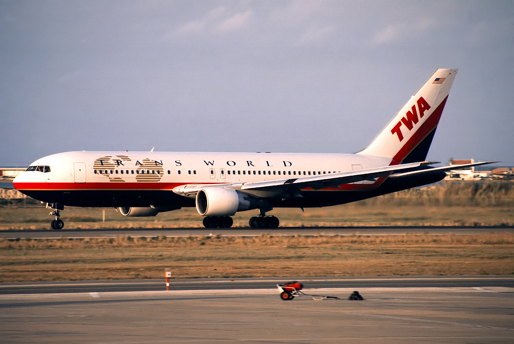 Trans World Airlines Boeing 767-205(ER) N650TW at Faro Airport